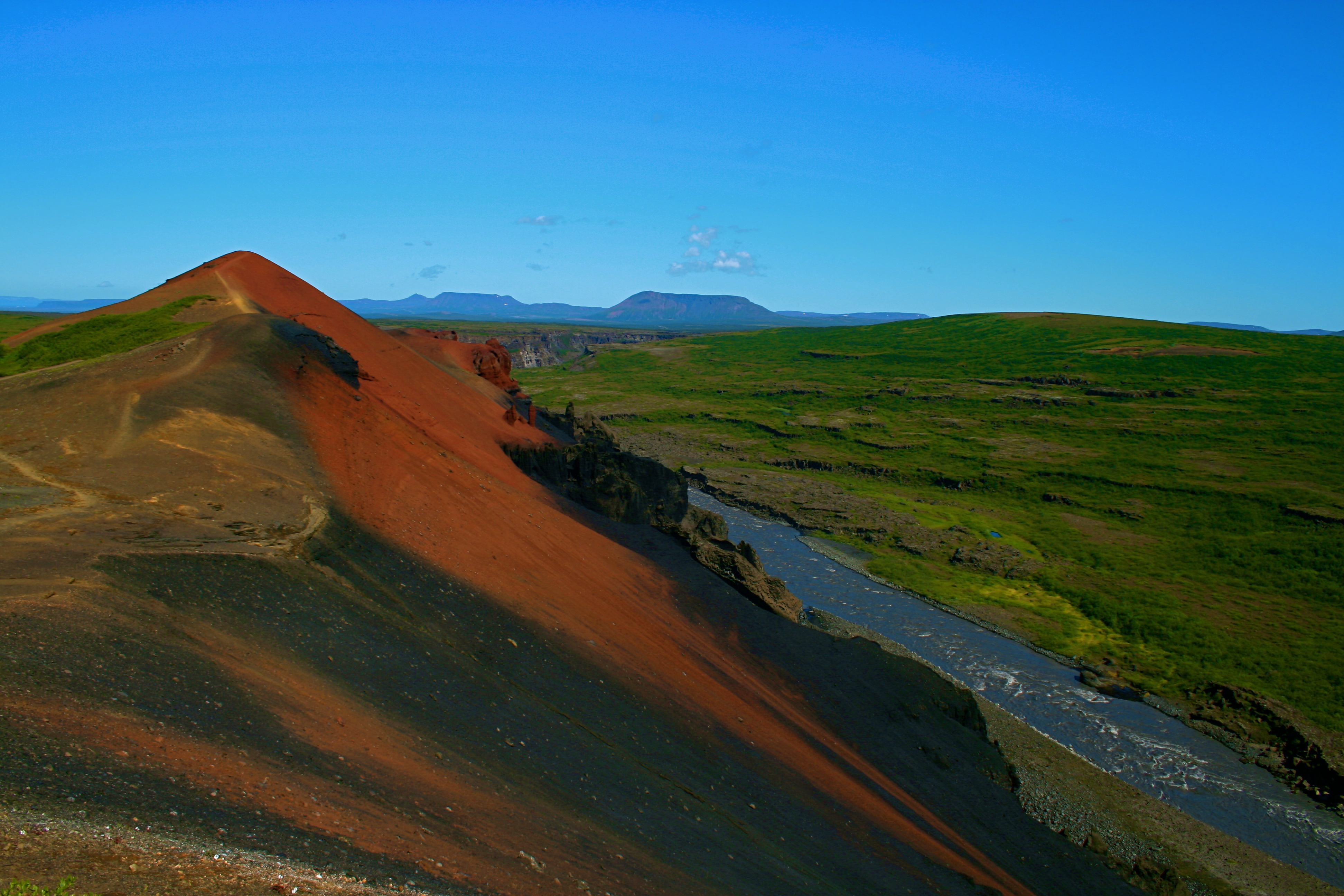 Rauðhólar hill in Jökulsárgljúfur national park